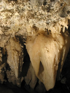 Great Heart Of Timpanogos, Timpanogos Cave NM